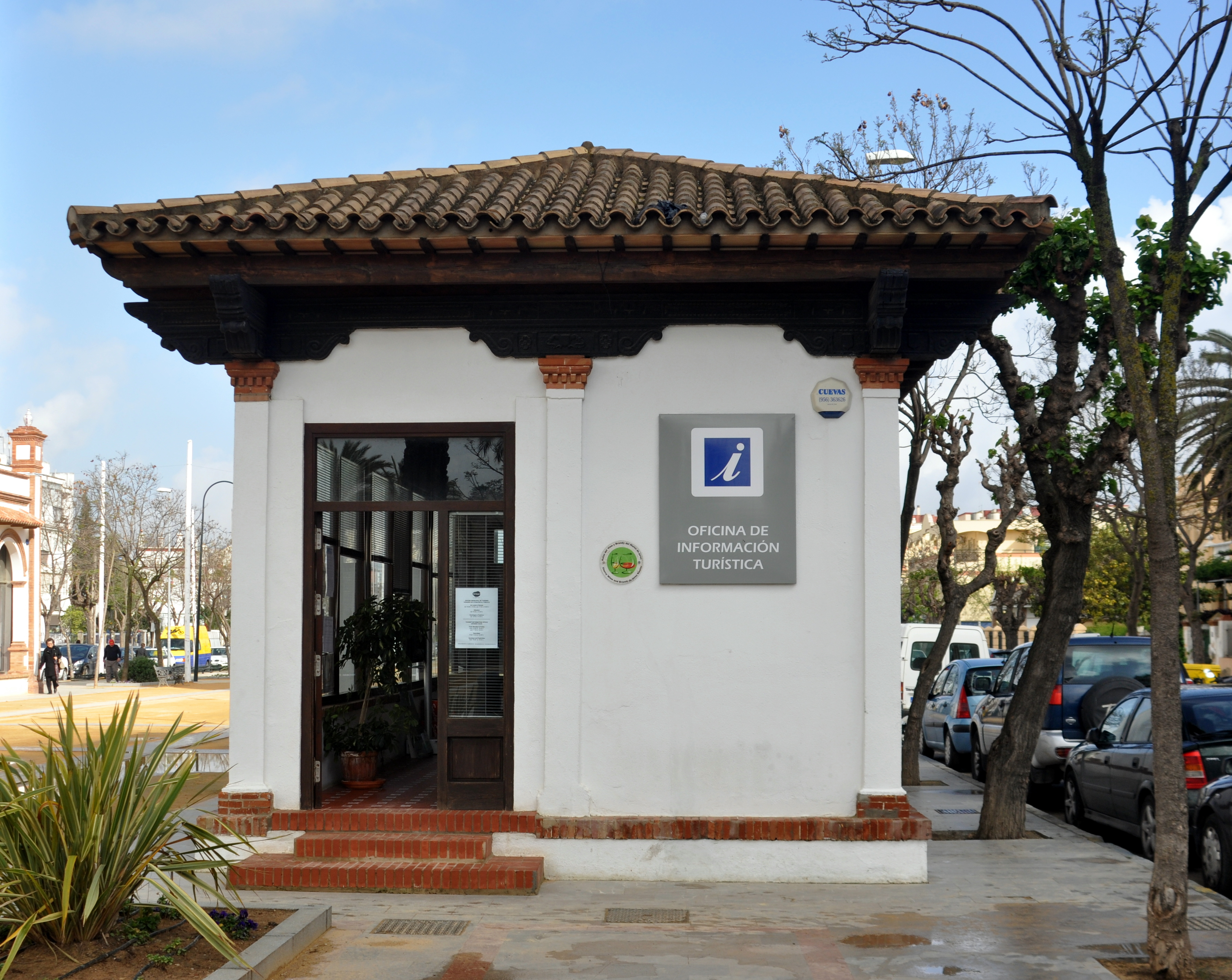 Tourist office in Sanlúcar de Barrameda (Andalusia, Spain).